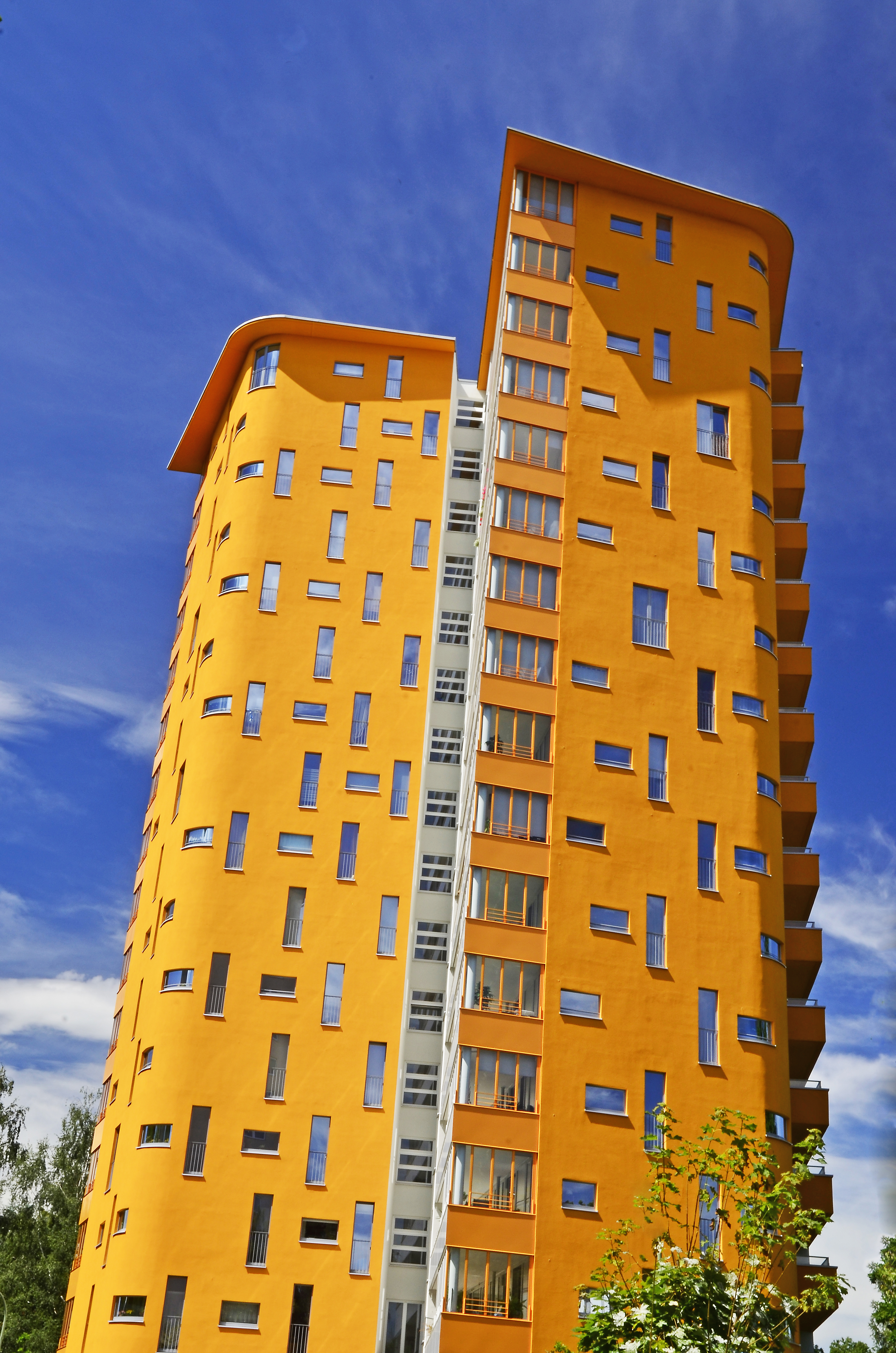 Tall Buidings in Munich (Siemens-Siedlung)